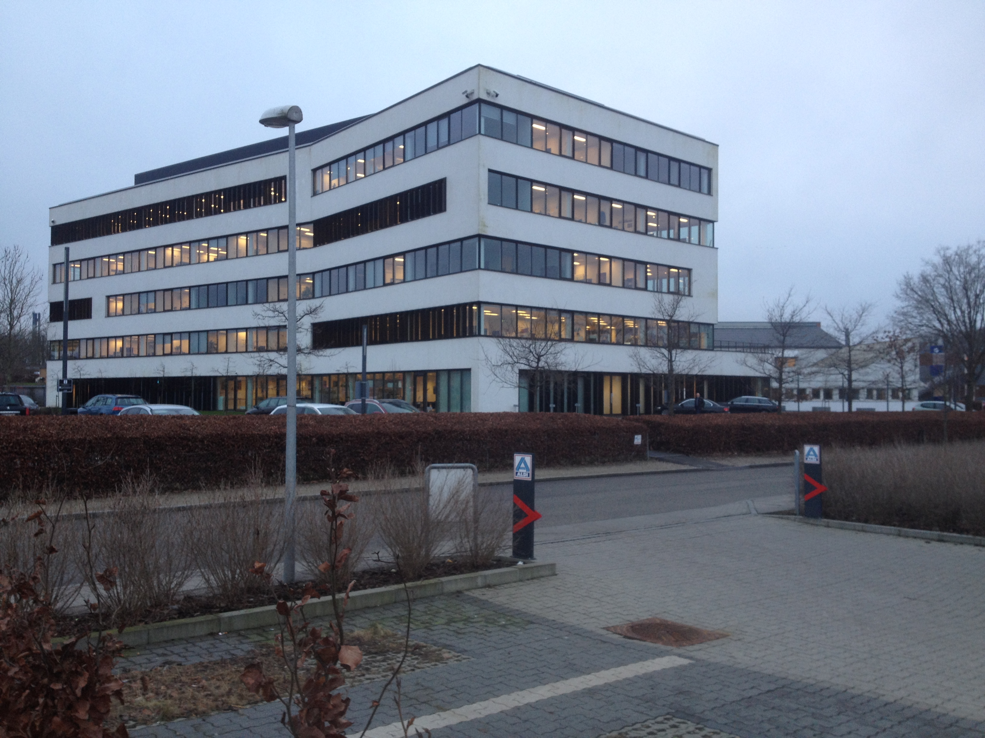 The Headquarters of BEC (Bankernes EDB Central) in Roskilde Denmark